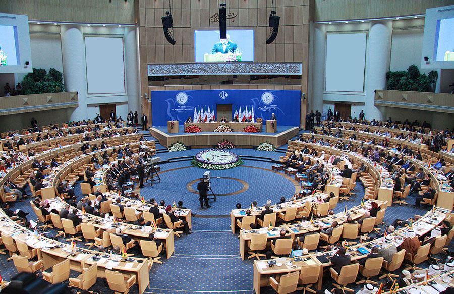 Closing ceremony of the Non-Aligned Movement (NAM) summit with the presence of members’ heads of state with an inaugural speech by supreme leader of Iran, Ayatollah Ali Khamenei.